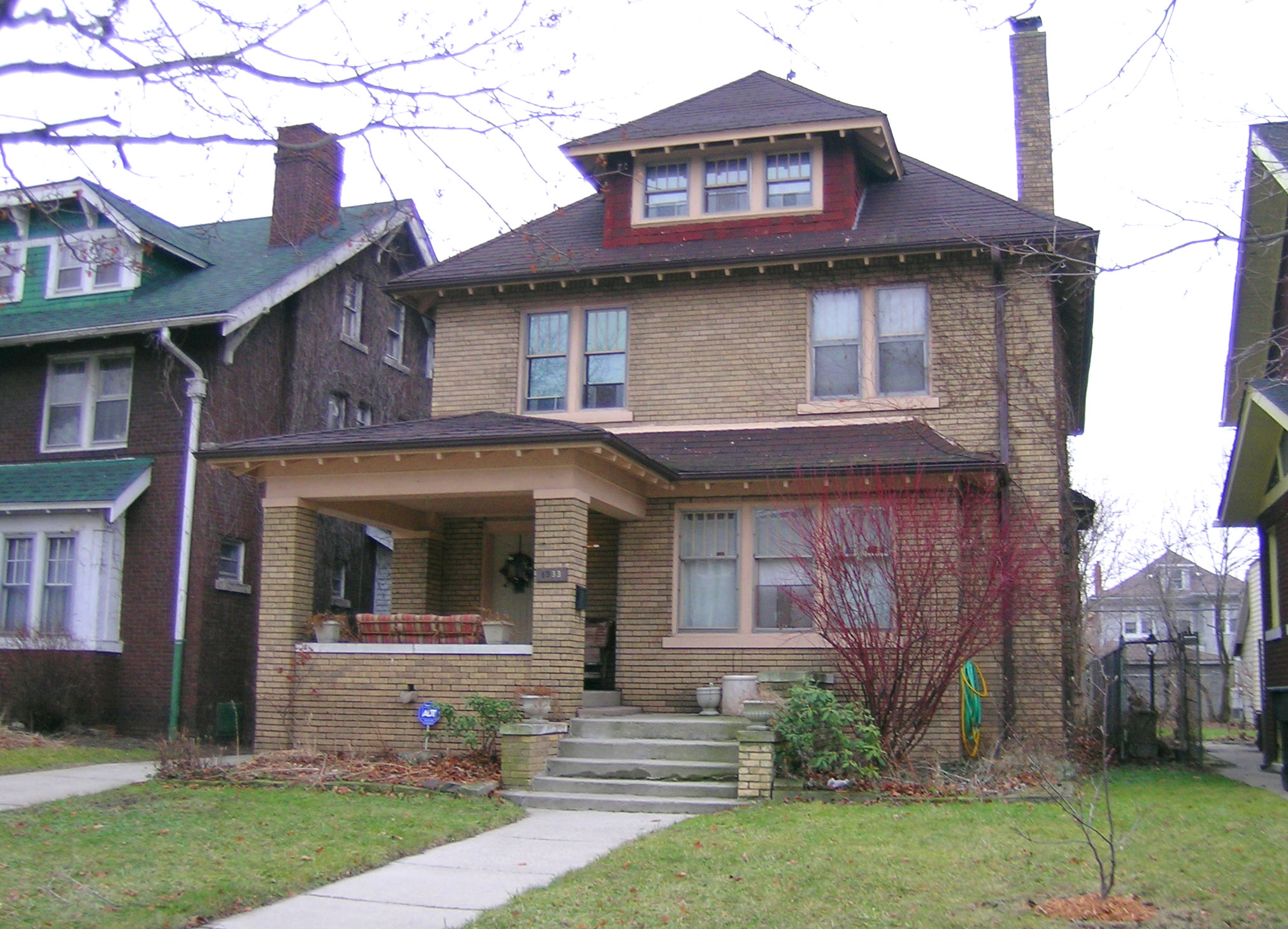 A house in Boston-Edison Historic District for use in B-E article.